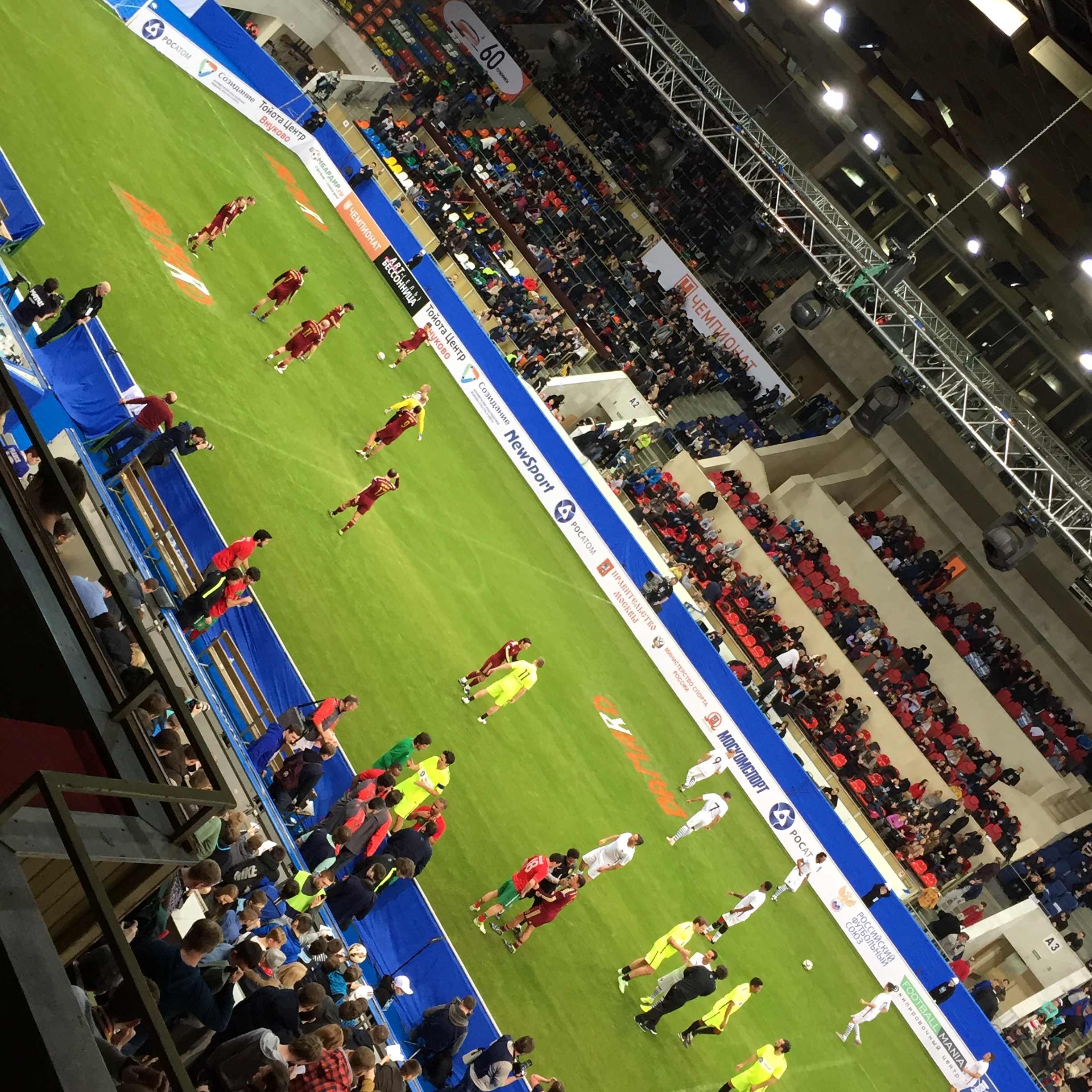 Yearly football tournament held Russia. Finally game. Moscow Luzhniki